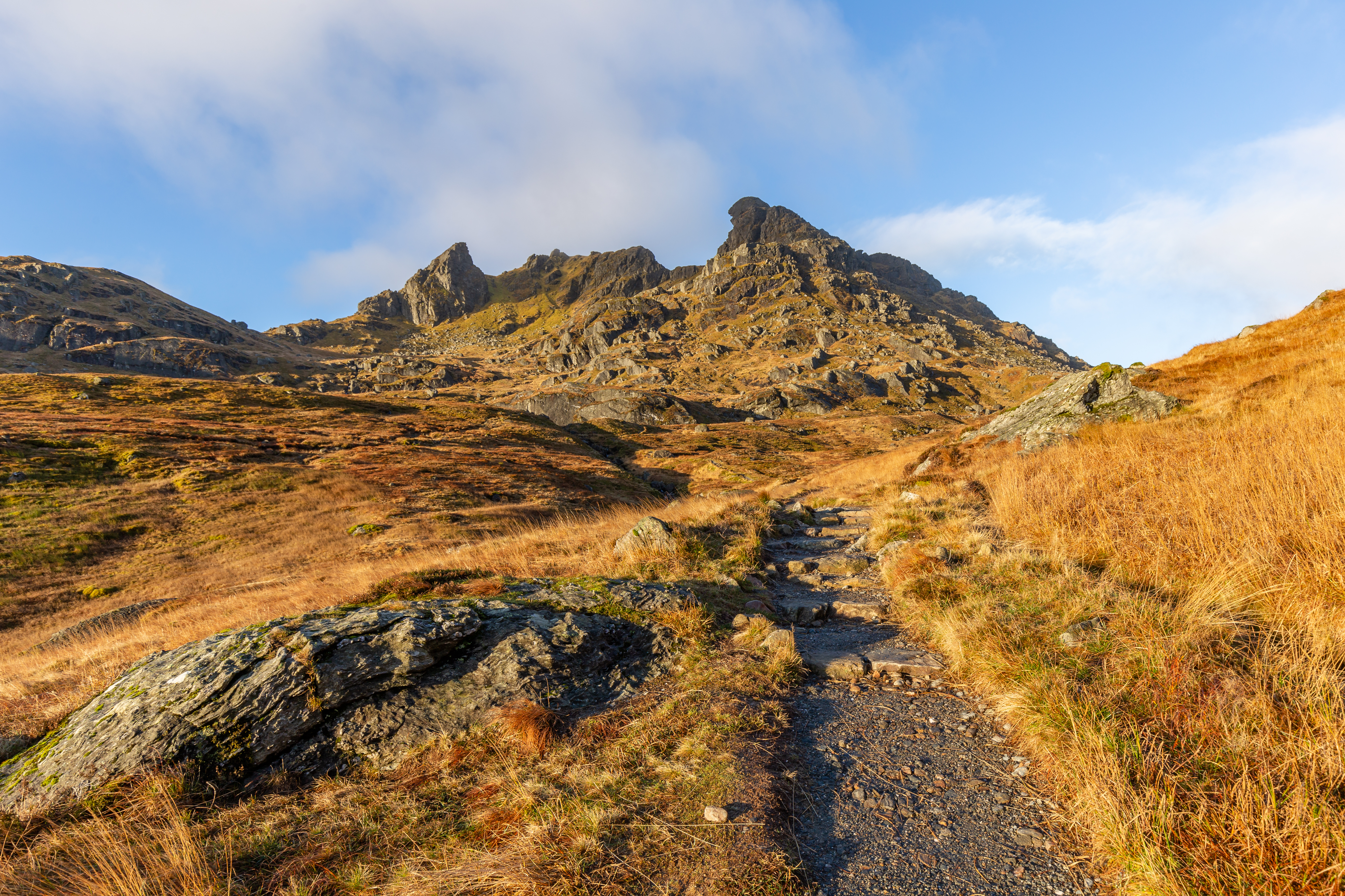 The Cobbler (Ben Arthur) (884 m), Arrochar Alps, Scotland